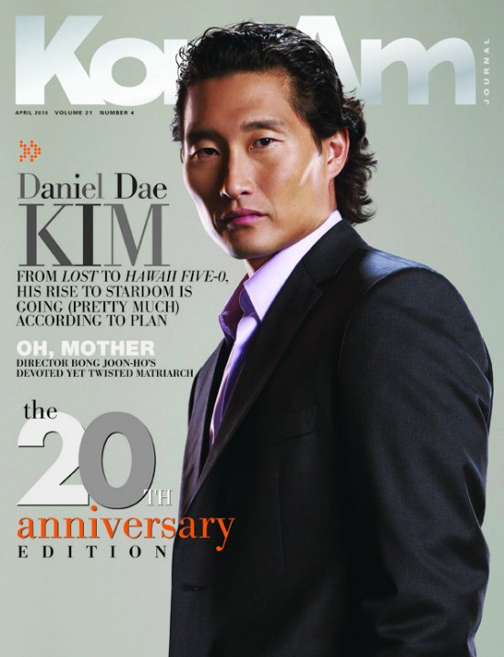 Magazine cover of KoreAm from April 2010; Daniel Dae Kim